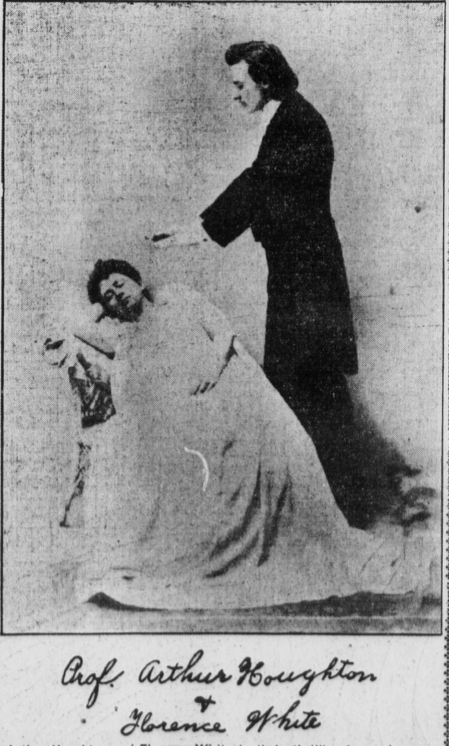 Stage hypnotist Arthur D. Houghton, with assistant Florence White, probably in the 1890s.